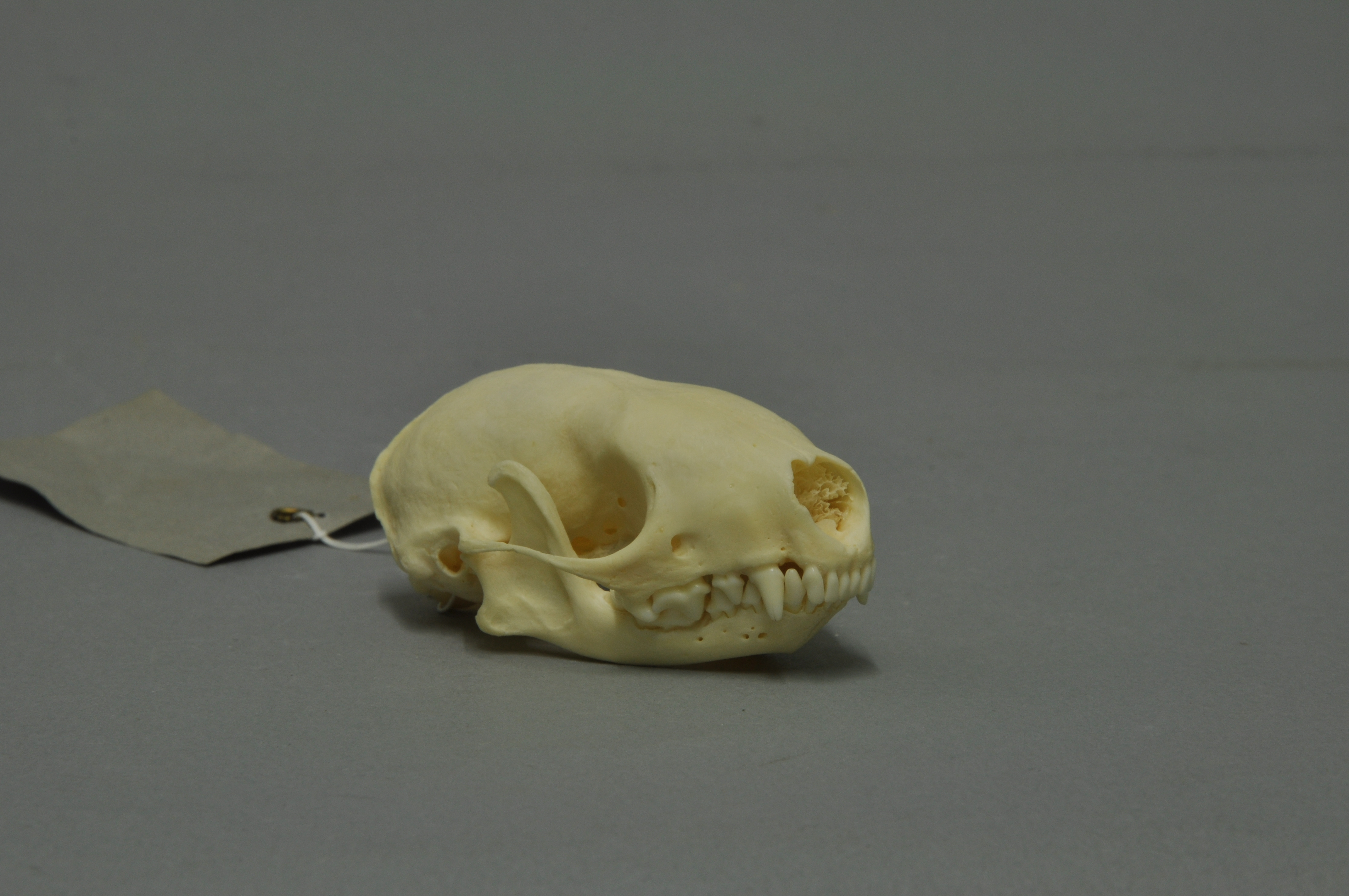 Striped hog-nosed skunk Conepatus semistriatus, skull, Coll. Museum Wiesbaden